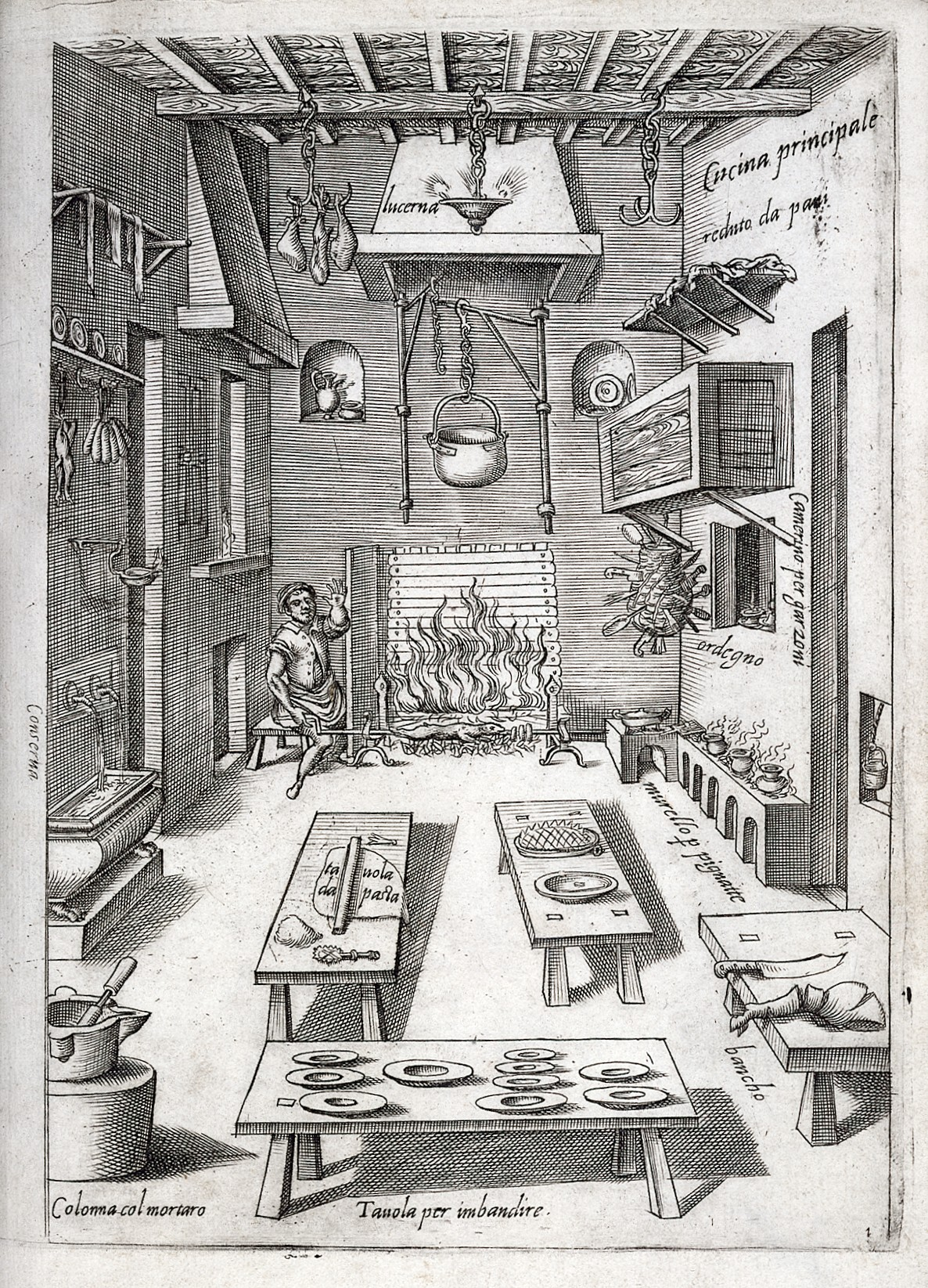 A kitchen. Rare Books Keywords: KITCHEN; Cooking; Bartolomeo Scappi